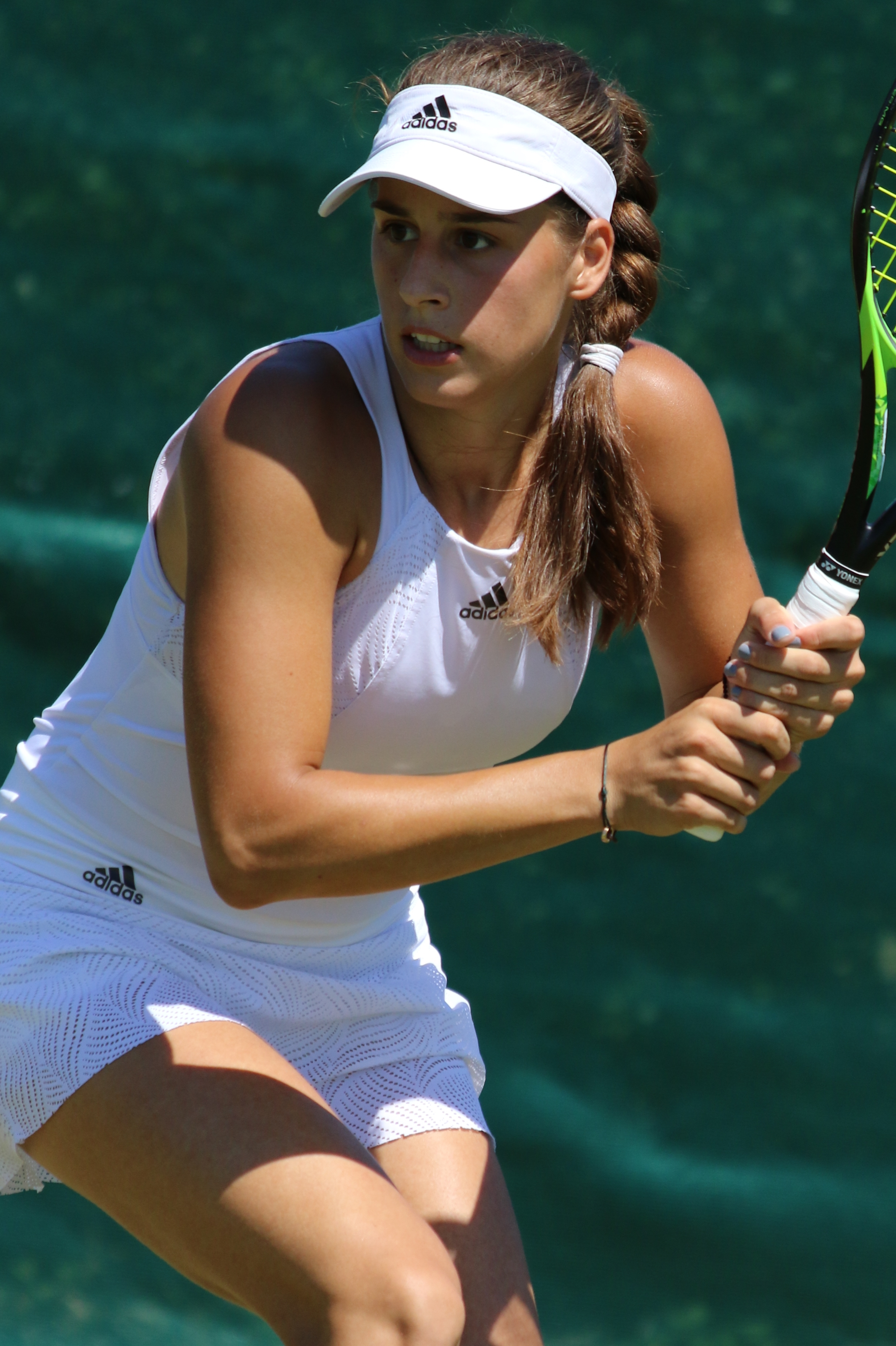 Jorovic WMQ18 (46)